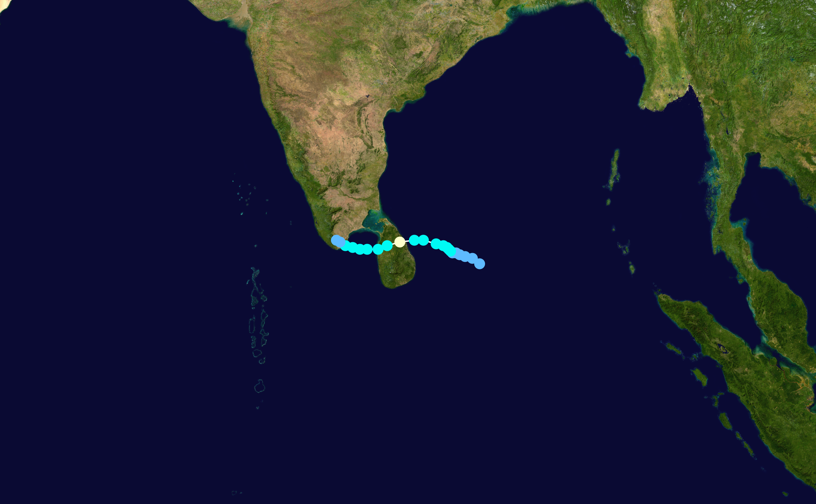 Track map of Extremely Severe Cyclonic Storm BOB 06 of the 2000 North Indian Ocean cyclone season. The points show the location of the storm at 6-hour intervals. The colour represents the storm's maximum sustained wind speeds as classified in the Saffir–Simpson scale (see below), and the shape of the data points represent the nature of the storm, according to the legend below. Saffir–Simpson scale Tropical depression≤38 mph≤62 km/h Category 3111–129 mph178–208 km/h Tropical storm39–73 mph63–118 km/h Category 4130–156 mph209–251 km/h Category 174–95 mph119–153 km/h Category 5≥157 mph≥252 km/h Category 296–110 mph154–177 km/h Unknown Storm type Tropical cyclone Subtropical cyclone Extratropical cyclone / Remnant low / Tropical disturbance